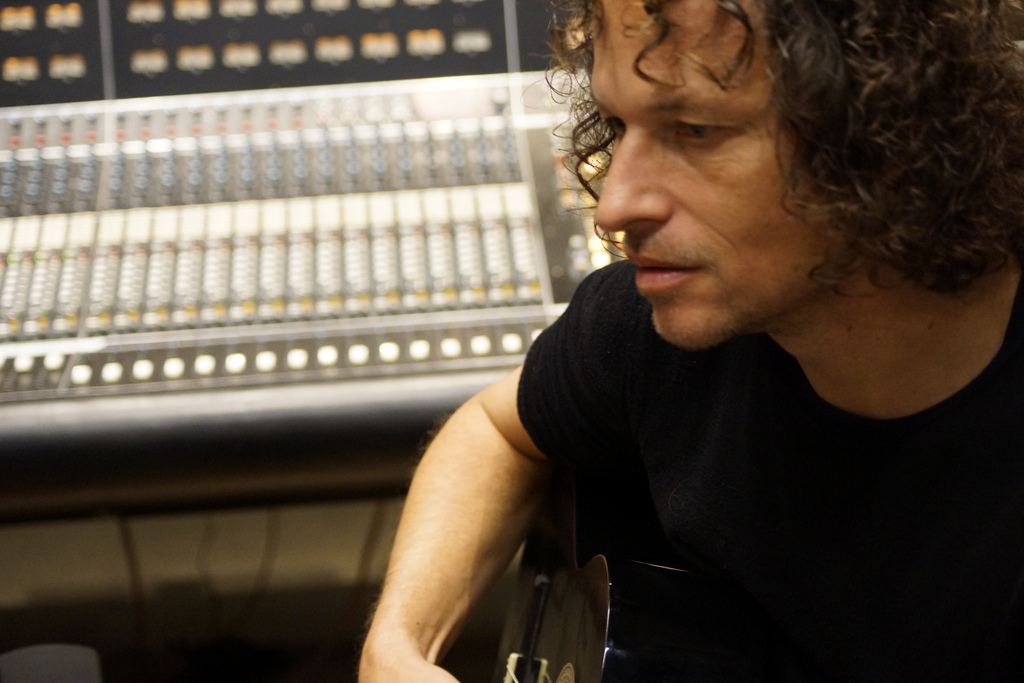 Writing-Session in Los Angeles @ Universal Music Publishing Studios Dezember 2011